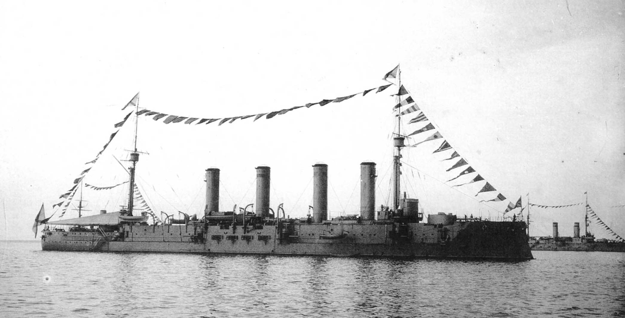 Imperial Russian cruiser Pallada.